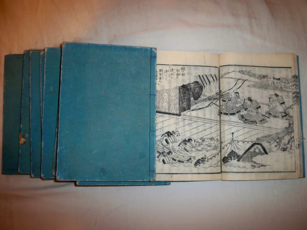 A 10 volume set of books with wood block prints by Osaka artist Matsukawa Hanzan (1820–1882?) dated 1863.